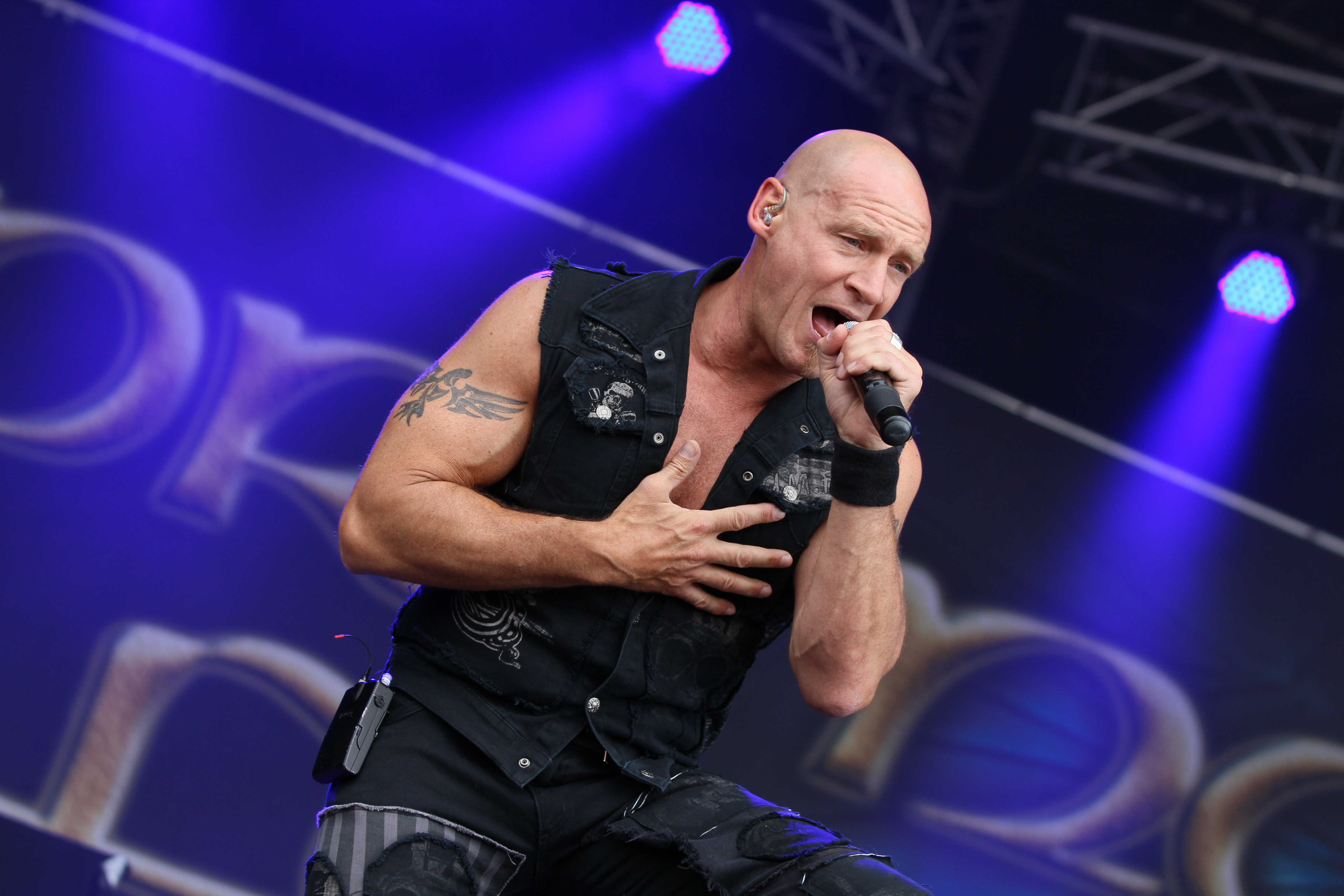 The German speed/power metal band Primal Fear at the Rockharz Open Air 2014 in Ballenstedt/Germany